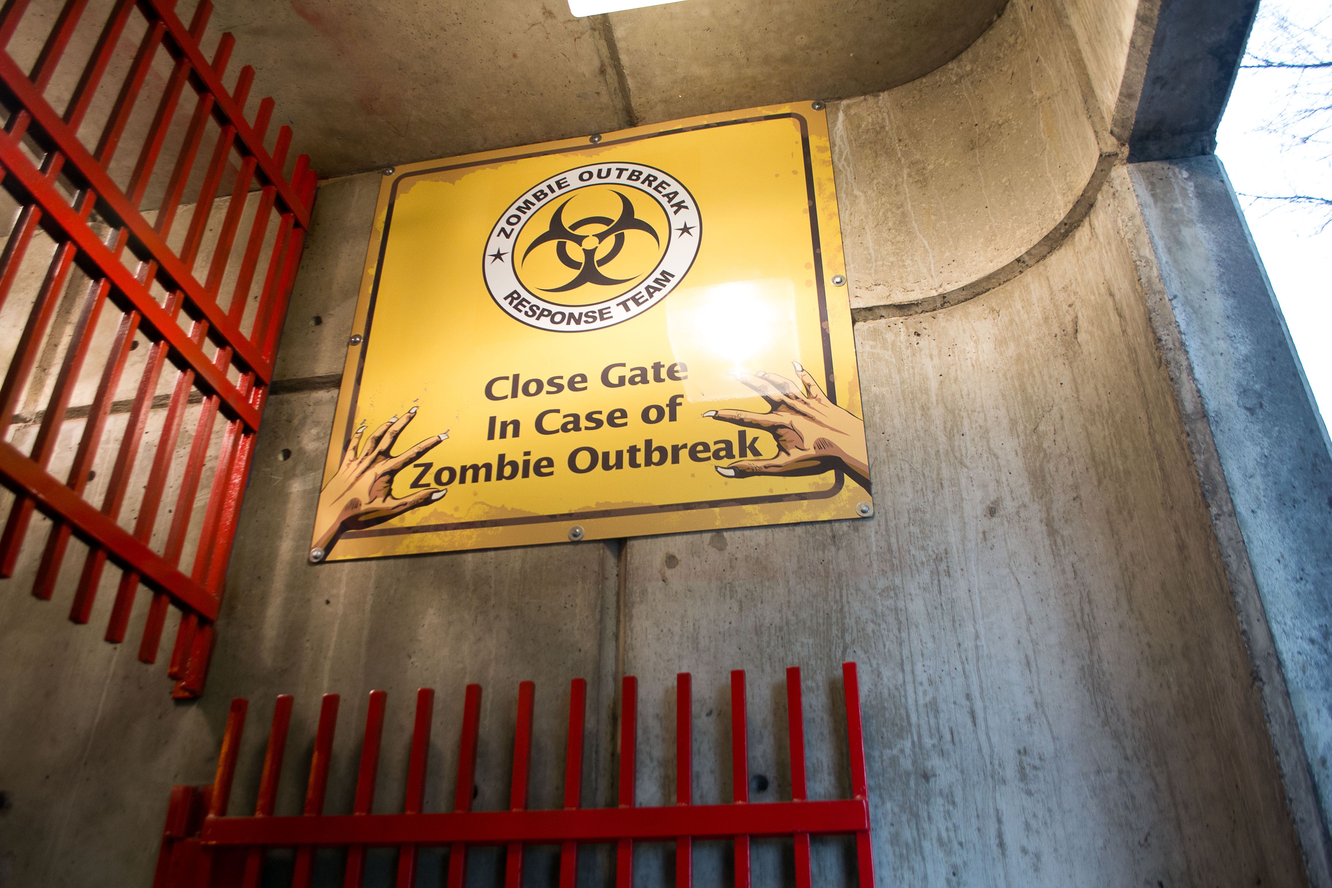 A warning sign at the Lane County parking facility